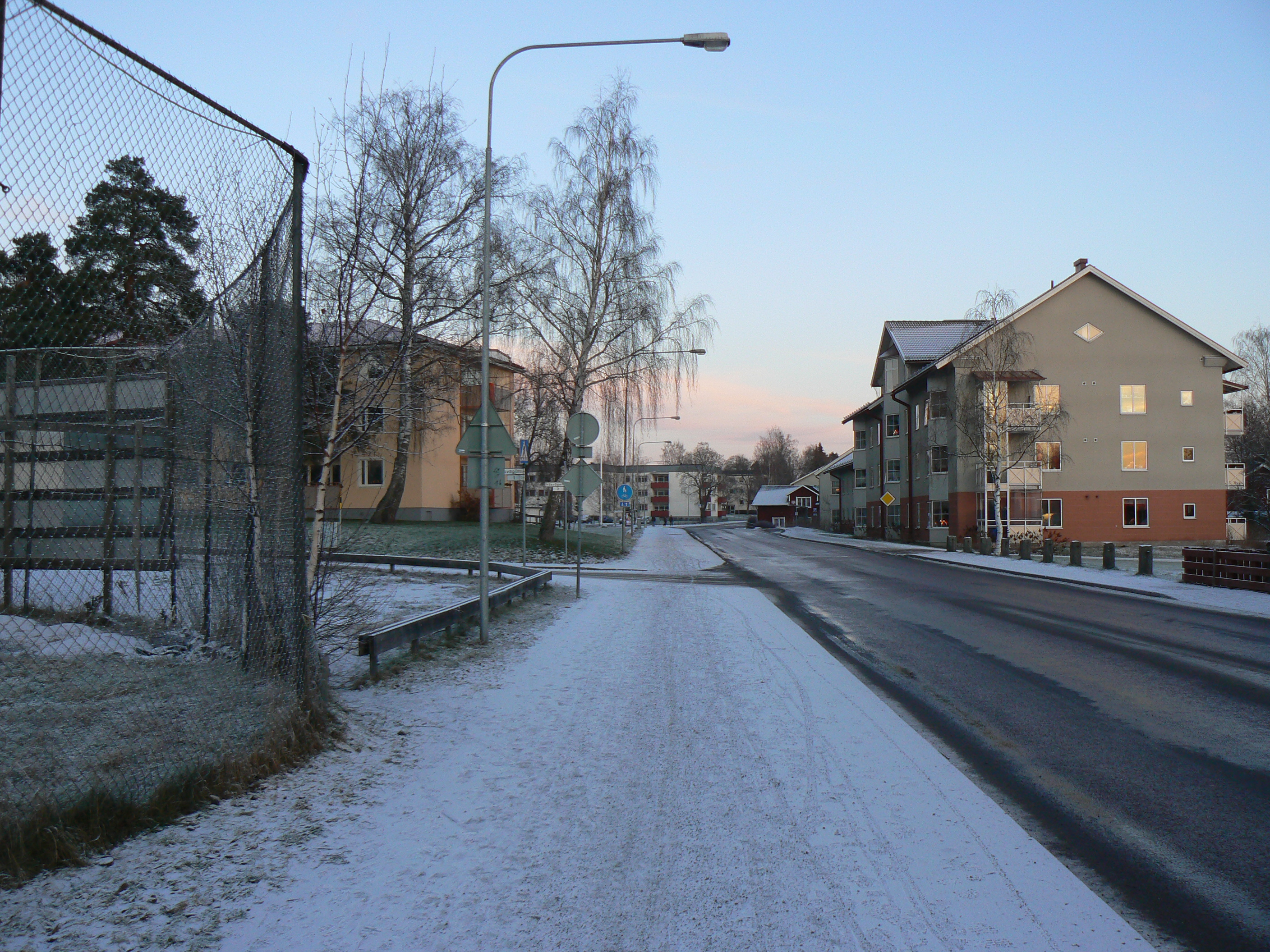 Image from Hosjö, part of Falun, Sweden. Photo by Skvattram 2007-01-06.